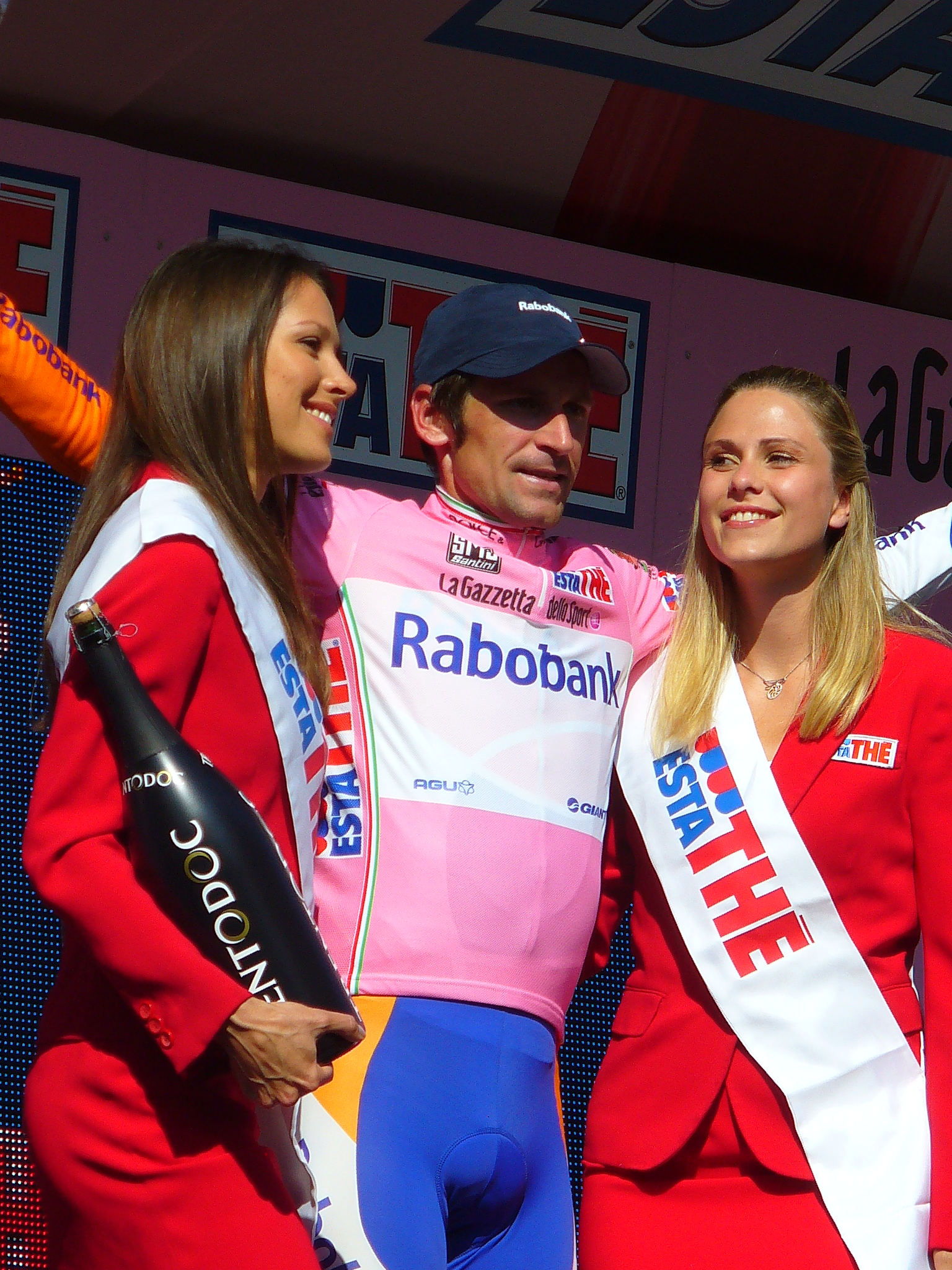 Denis Menchov at the end of the Naples-Anagni, last but one stage of the 2009 Giro